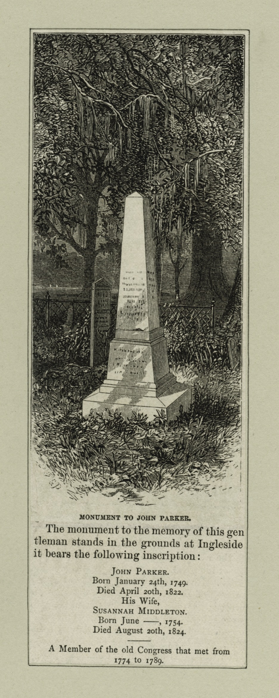 Printmakers include Henry Bryan Hall, J.B. Longacre, A.H. Ritchie, Albert Rosenthal and Max Rosenthal. Draughtsman is David McNeely Stauffer. Title from Calendar of Emmet Collection. EM1255